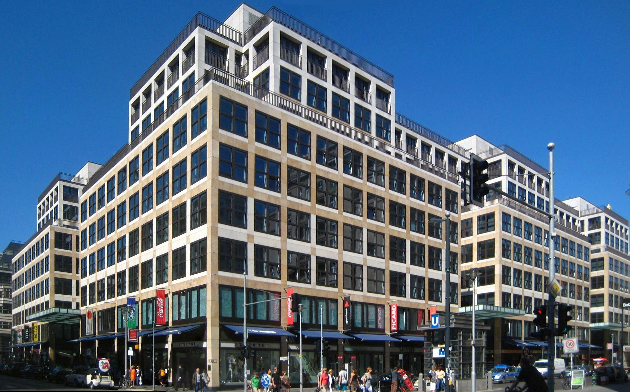 The Quartier 205 at Friedrichstraße No. 67-70 in Berlin-Mitte. The building was constructed from 1993 to 1995 to a design by O. M. Ungers.